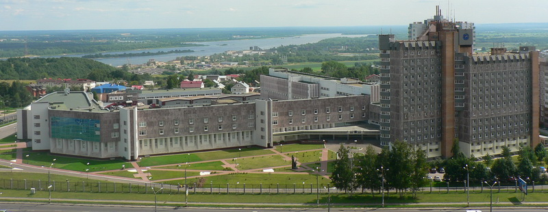 The skyview of the FSB institute